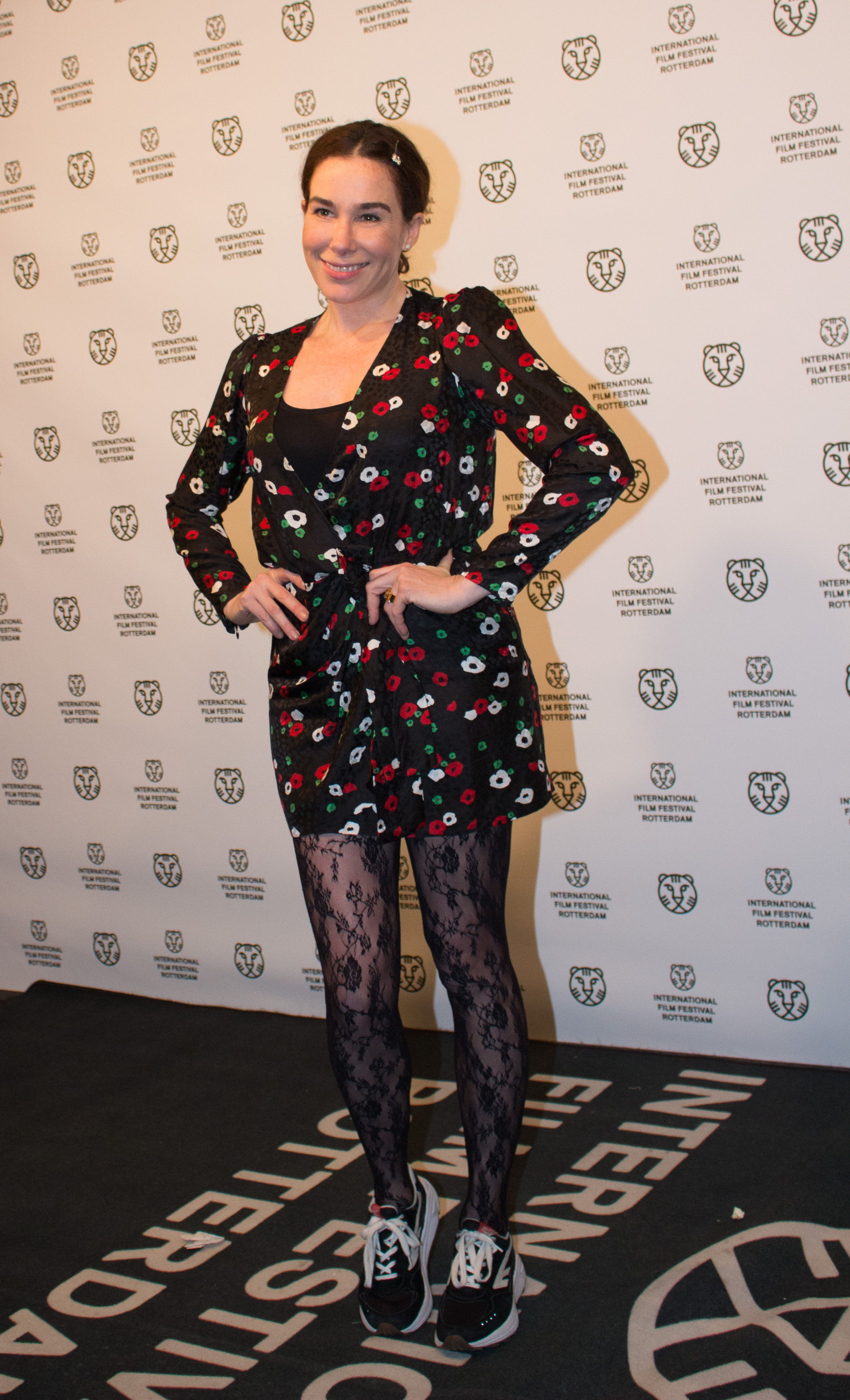 cast & crew of "Paradise Drifter" at the 49th International Film Festival Rotterdam